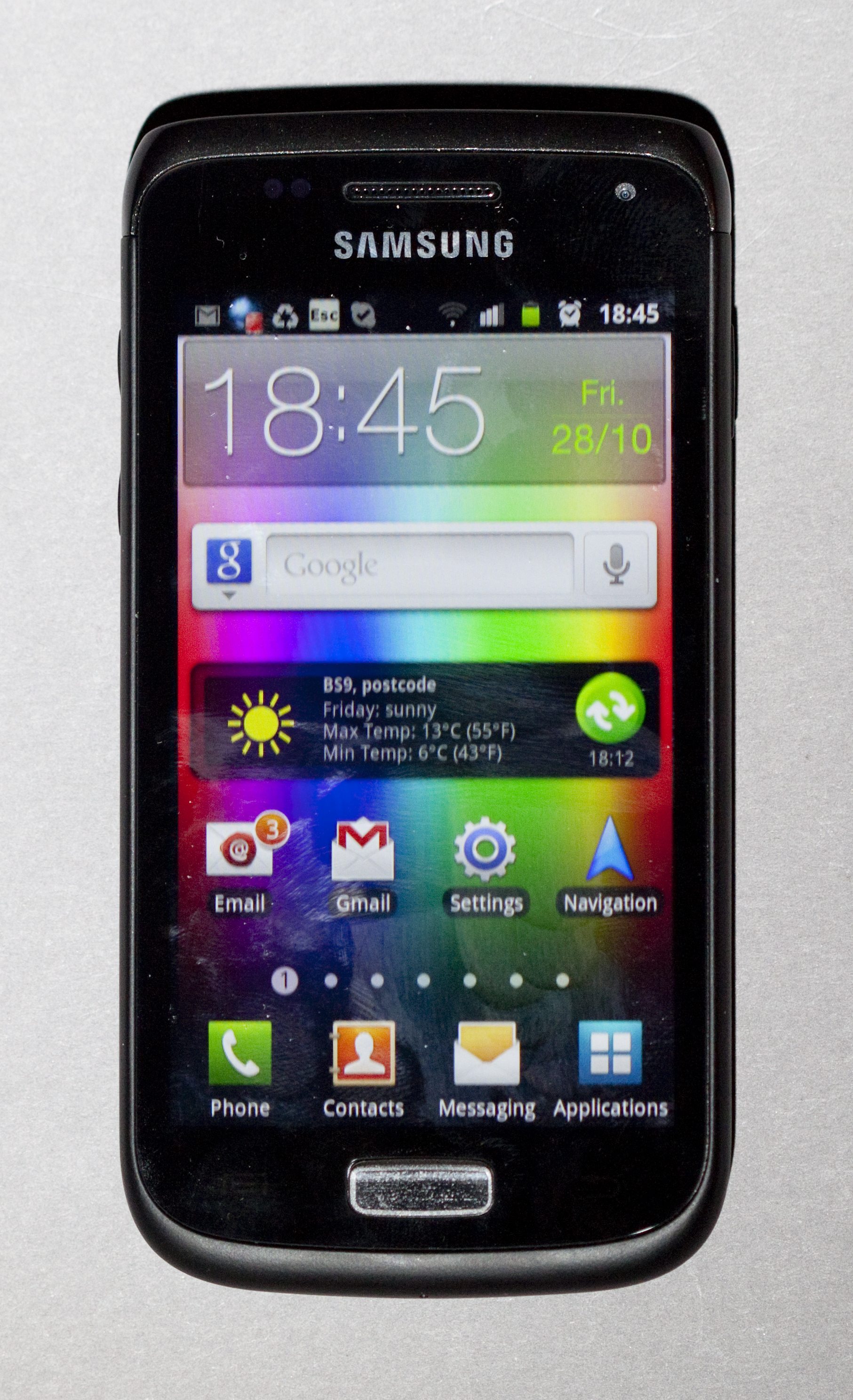 see filename. Taken with Canon EOS 500D + Canon f2.8/100mm macro